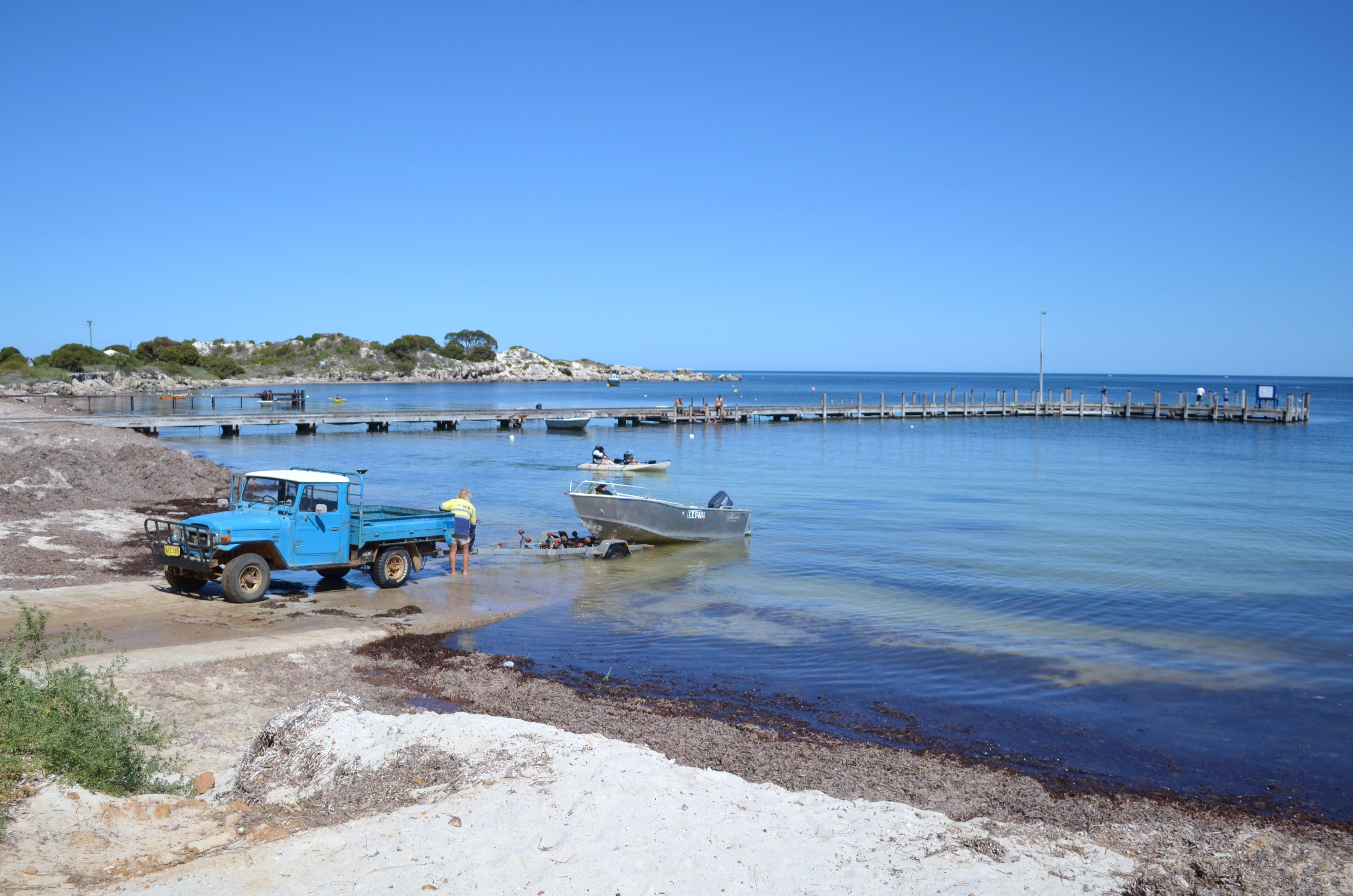 View of the town jetty and boat ramp at Leeman, Western Australia.